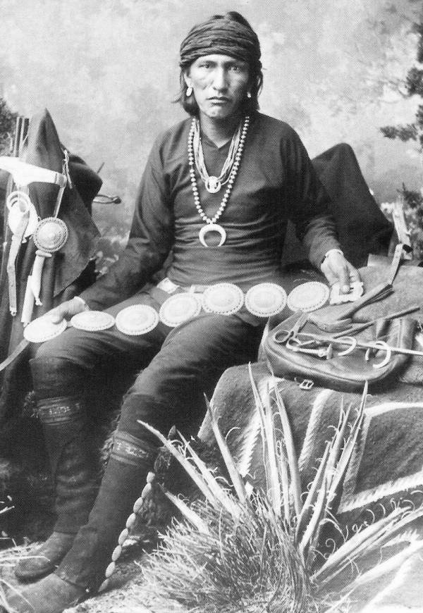 Portrait photograph of Bai-De-Schluch-A-Ichin or Be-Ich-Schluck-Ich-In-Et-Tzuzzigi "Metal Beater" (Slender Silversmith) with Silver Necklaces, Concho Belts, Tools and Army Saddle Bag, 1883. Photo in the National Anthropological Archives collection. Photo by G. B. Wittick, Albuquerque, New Mexico. Nota bene: this is not a photo of Atsidi Sani.